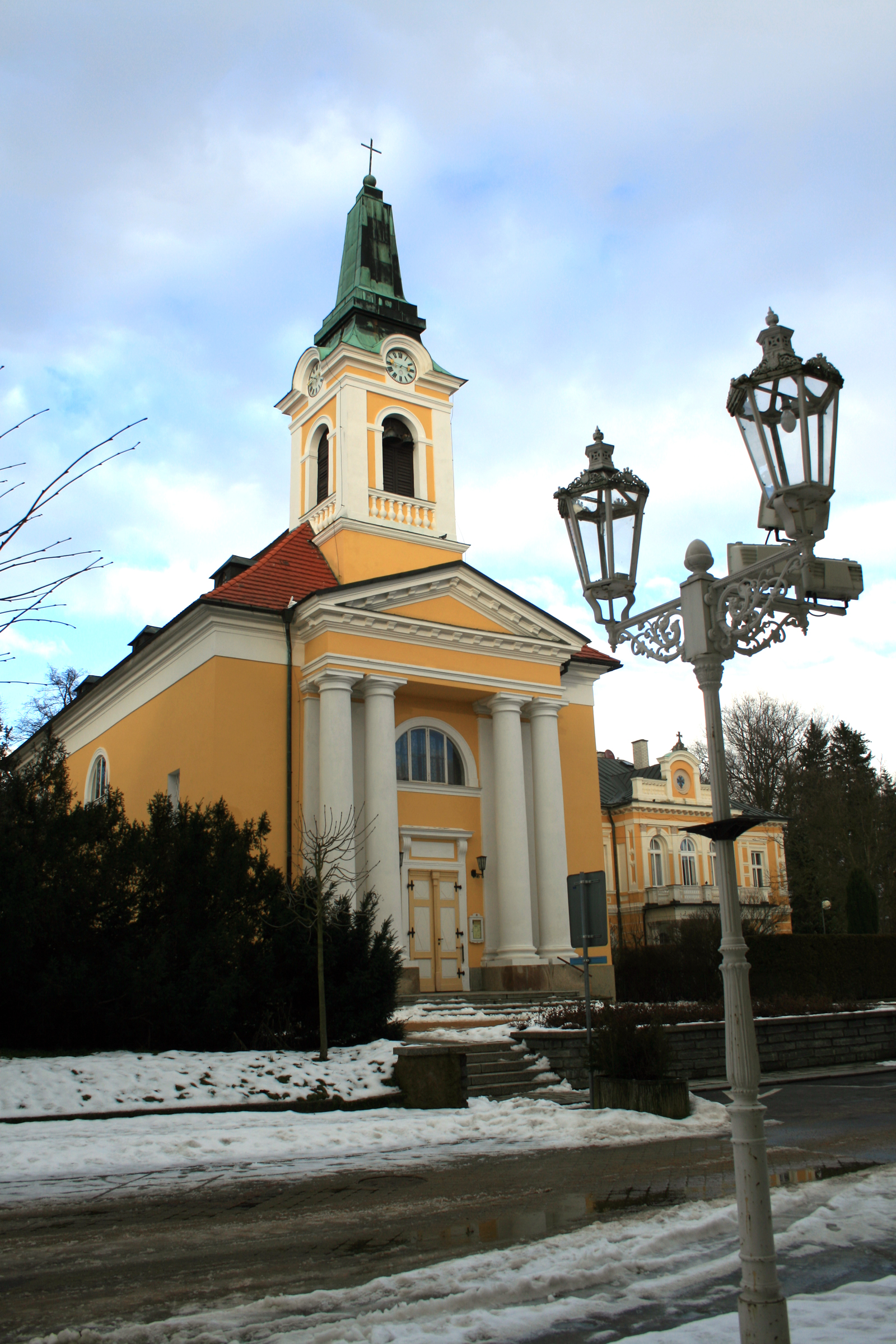 Church Povýšení sv. Kříže in Františkovy Lázně, west Bohemia Czech Republic